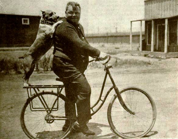 Actor Roscoe Arbuckle and Luke the dog, on page 469 of the January 25, 1919 Moving Picture World.